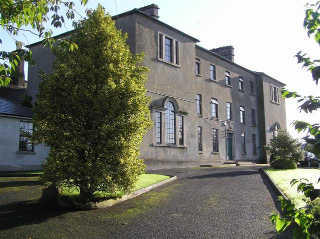 Prior School, Raphoe To celebrate their foundation of the 400th Anniversary of the five Royal Schools of Ulster the five schools, The Royal School Armagh, Portora Royal School, Enniskillen, The Royal School Dungannon, Cavan Royal School, and The Royal and Prior School Raphoe joined together in a unique cross-border initiative and formed a separate company known as “The 1608 Royal Schools” to focus on their histories. In March, 2008, HRH The Queen, accompanied by His Royal Highness The Duke of Edinburgh, was guest of honour at a reception in The Royal School Armagh